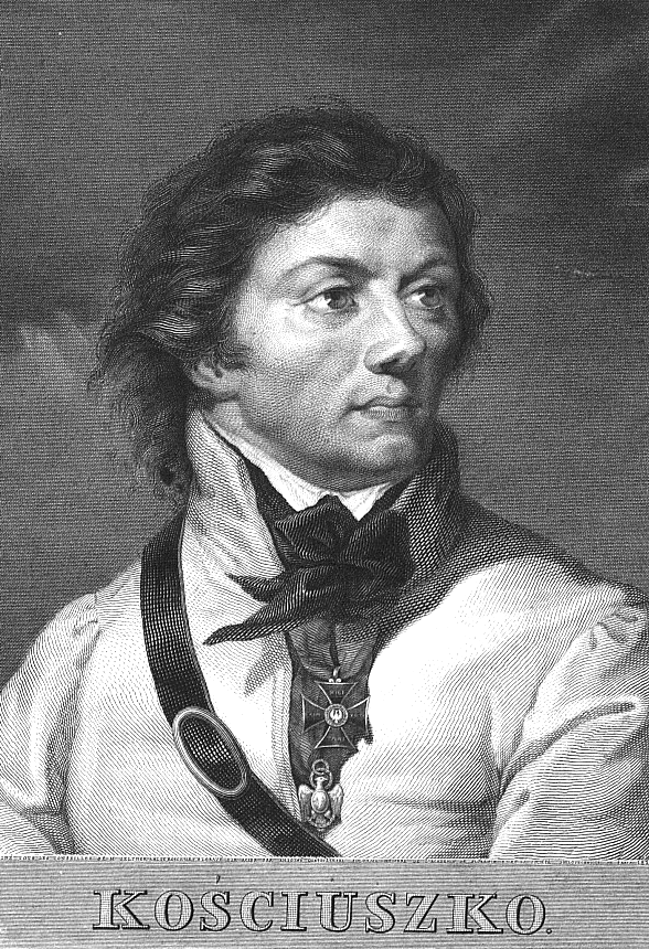 Tadeusz Kościuszko